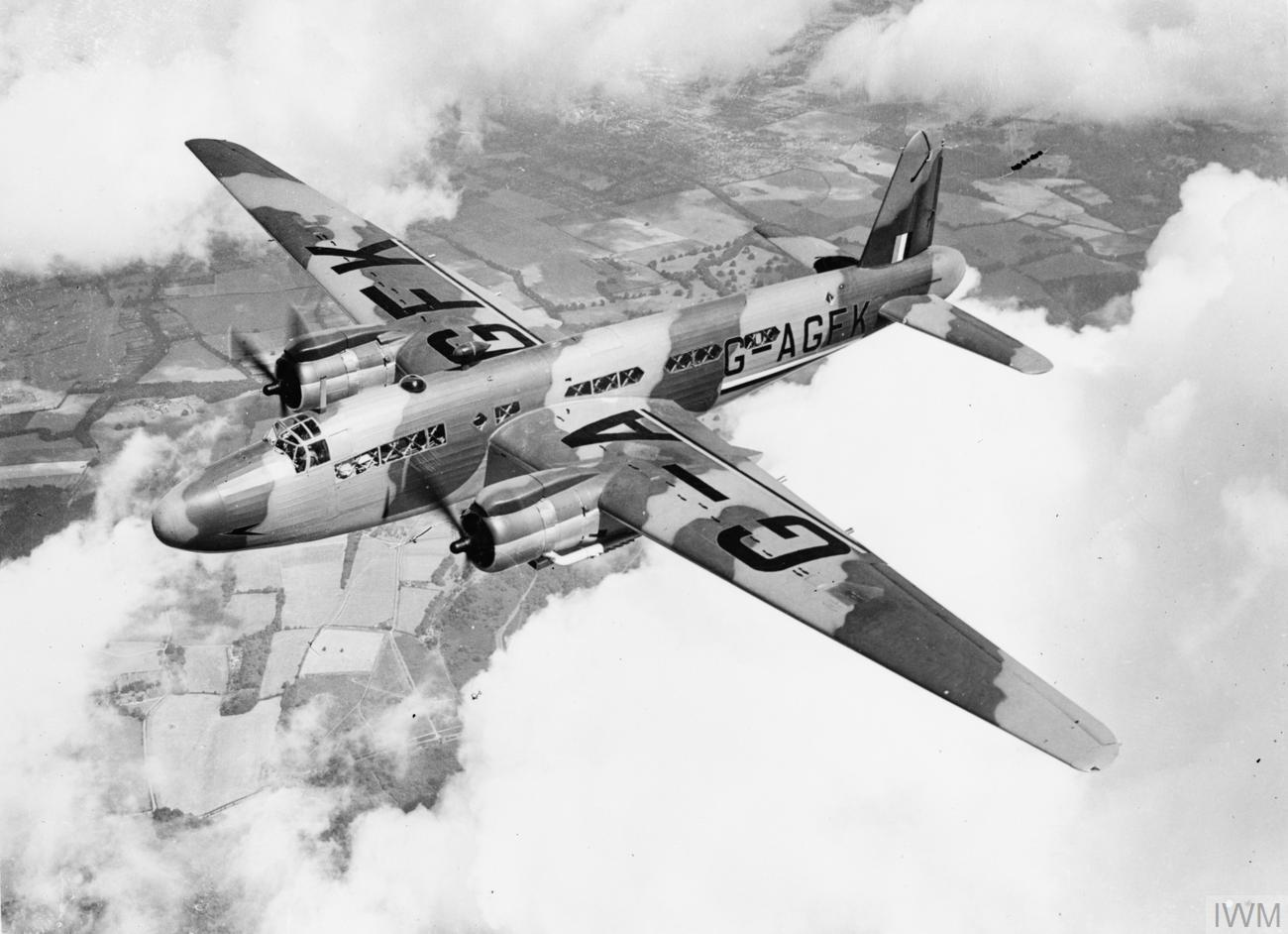 Aircraft of the Royal Air Force 1939-1945- Vickers Warwick Warwick C Mark I (Vickers Type 456) commercial transport, G-AGFK, in flight, 1943. This aircraft was originally BV256, the last of fourteen B Mark I airframes converted for use by BOAC on a mail service to British forces in North Africa and the Mediterranean from February 1943. In early 1944 the transports reverted to the RAF, and BV256 was operated by No. 525 Squadron RAF.